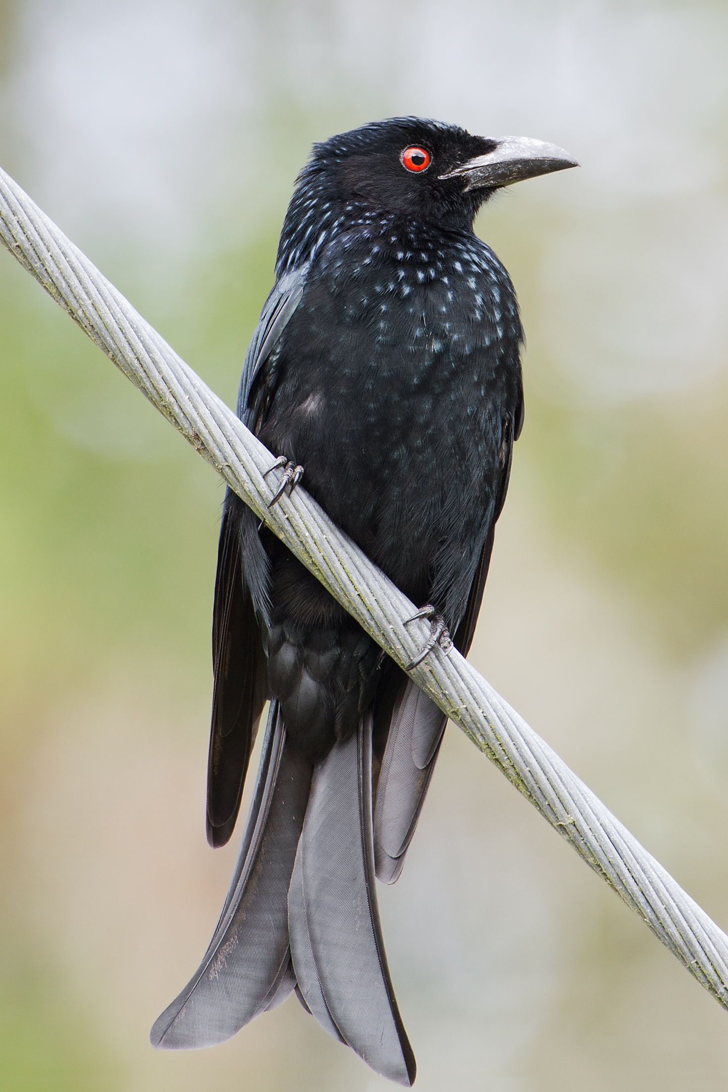 Spangled Drongo (Dicrurus bracteatus), Wonga, Queensland, Australia